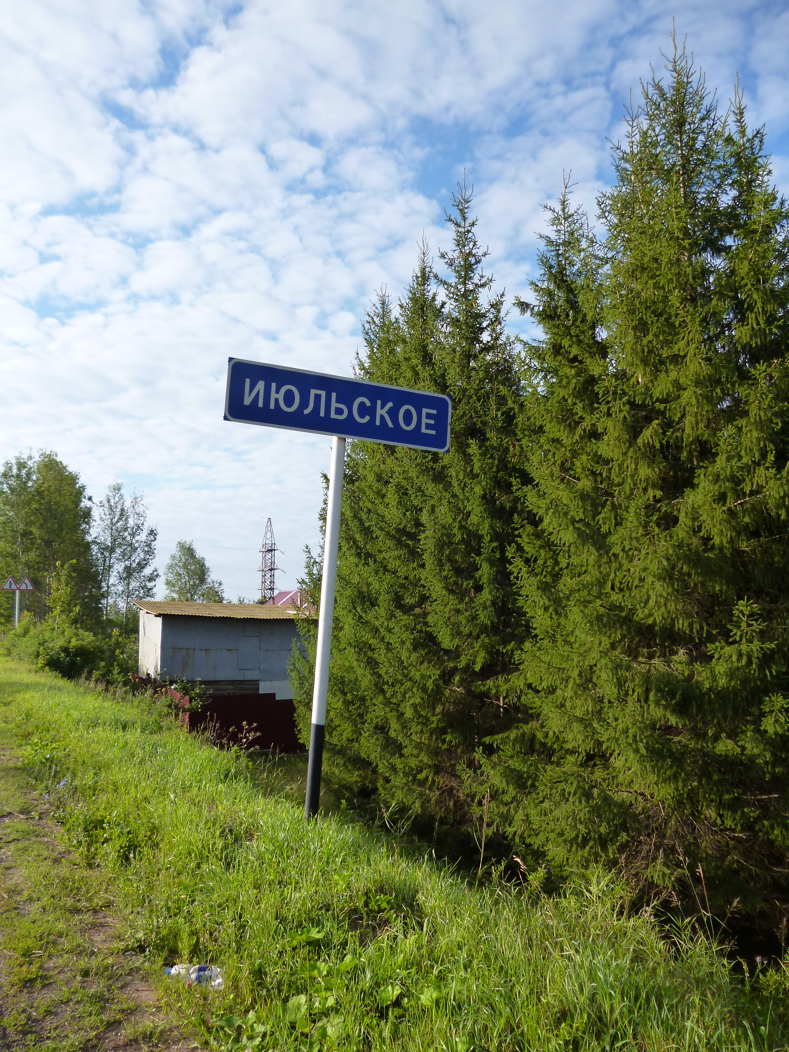 Iulskoe